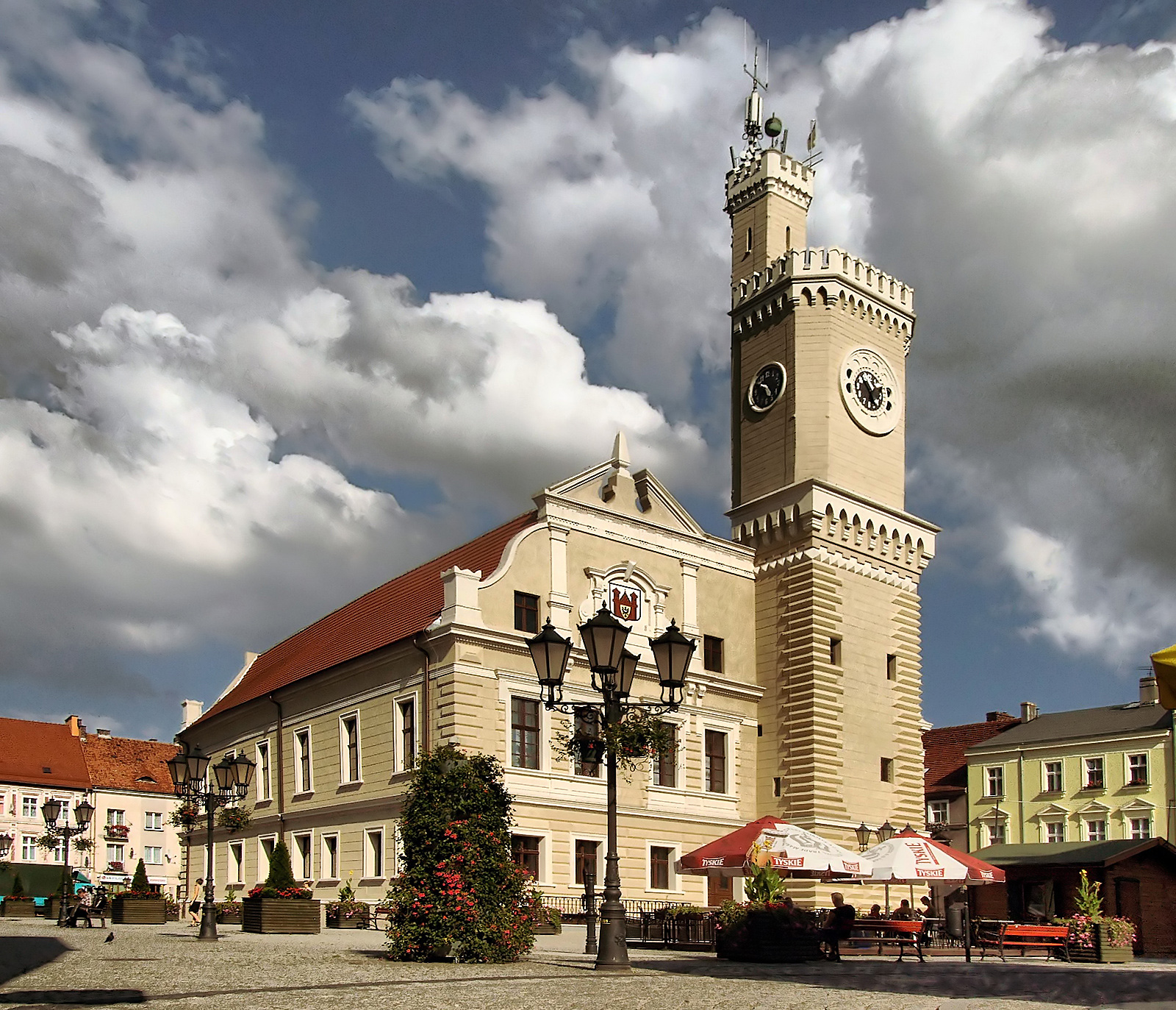 the City Hall in the city of Świebodzin, Poland